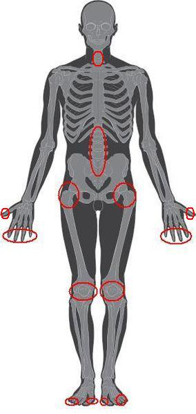 Osteorthritis (OA) location on the skeleton anterior